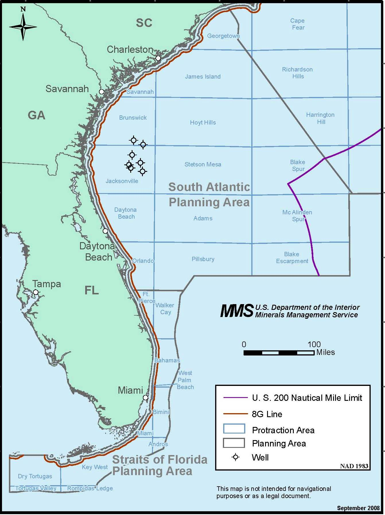 Map showing exploratory wells drilled for oil and gas off the US south Atlantic coast